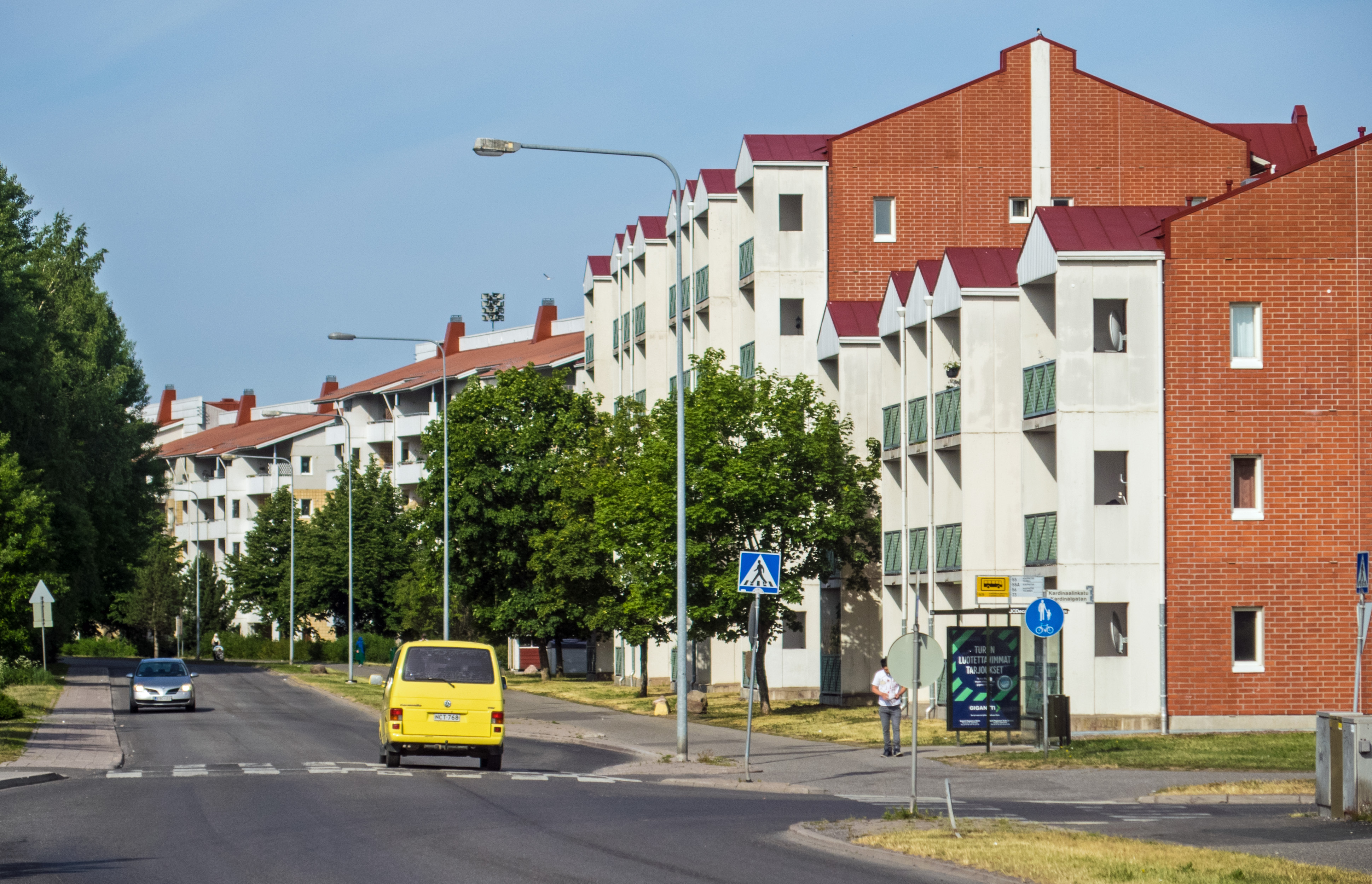 Paavinkatu apartment buildings in Halinen